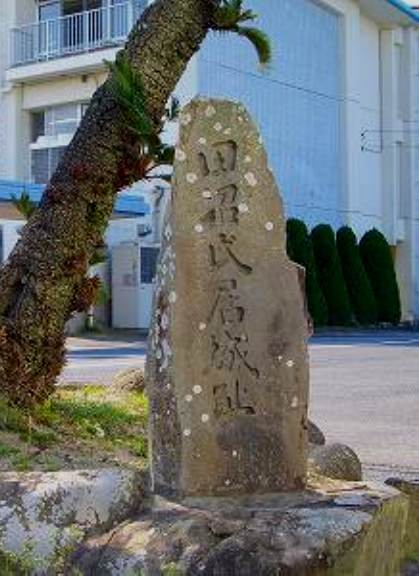 Site of Sagara Jin'ya, on grounds of Sagara Elementary School, Makinohara, Shizuoka.